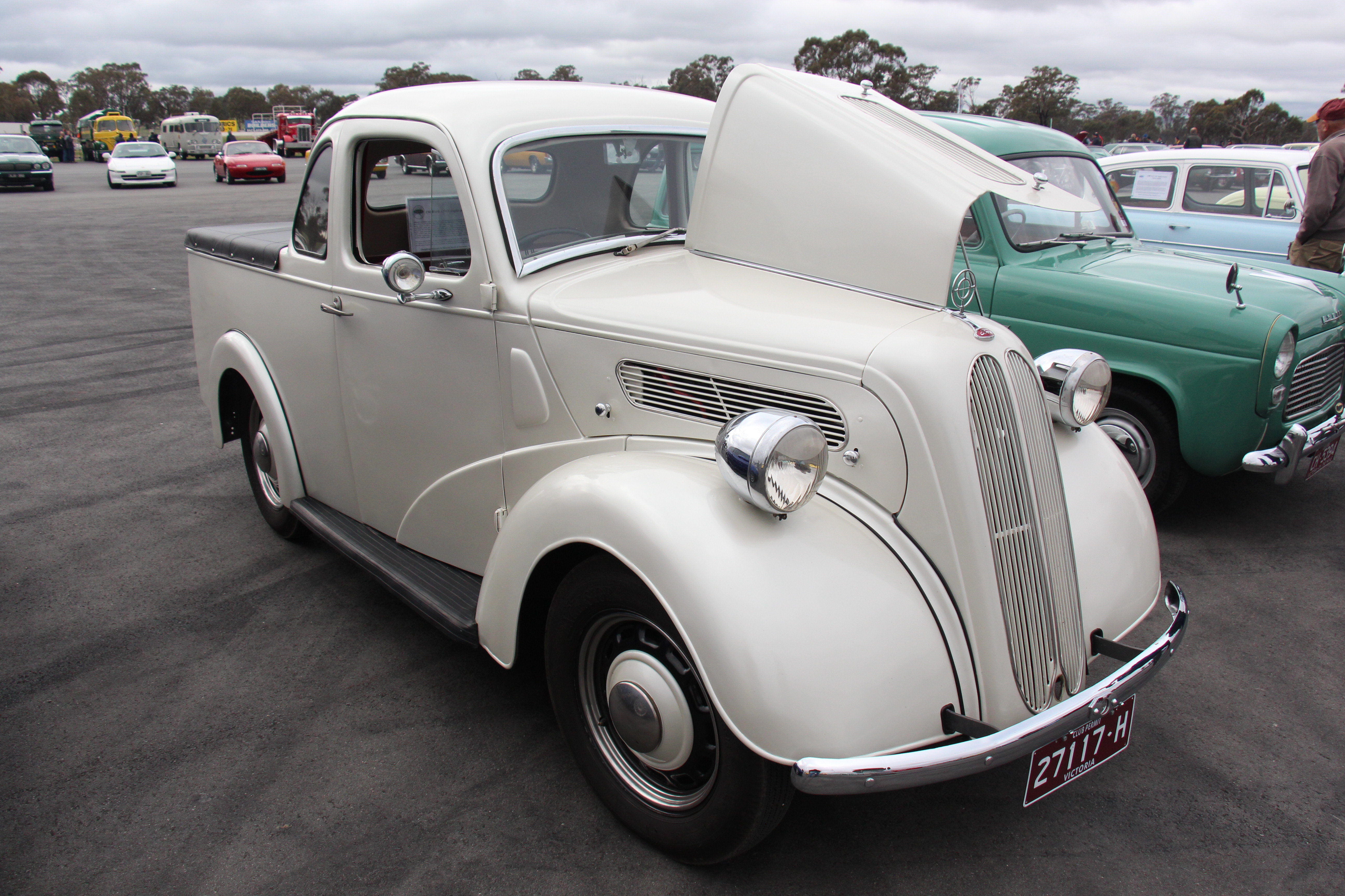 The 1937-38 7W Ten was the first of this UK designed car. From 1939, the next model, not only were the 2 and 4 door saloons built in the UK, but in Australia as well. 1938-49 UK built E93A Prefect, E04A Anglia. 1939-45 Oz built E03A Prefect, 1946-48 Oz built A53A Prefect, A54A Anglia. 1949-53 UK built E493A Prefect, E494A Anglia 1949-53 Oz built A493A Prefect, A494A Anglia. 1953-59 UK and Oz built 103E Popular In 1953 replaced by the new 100E, the old shape, as the 103E Popular, continued on as a budget model until 1959. The EO4A Anglia got a facelift in 1949, the E494A, sold along side the 4 door E493A Prefect. The Prefect got a more modern updated look, the headlights now within the guards. But with the Anglia, it continued with the old look, headlights on top of the guards and a similar grille as the old 7W Ten. The E494A was only available as a 2 door saloon and panel van in the UK, but in Australia, the similar A494A was available as 2 door Tourer, Roadster Utility and Coupe Utility as well. Engine; 1172cc 30hp sidevalve 4 cyl